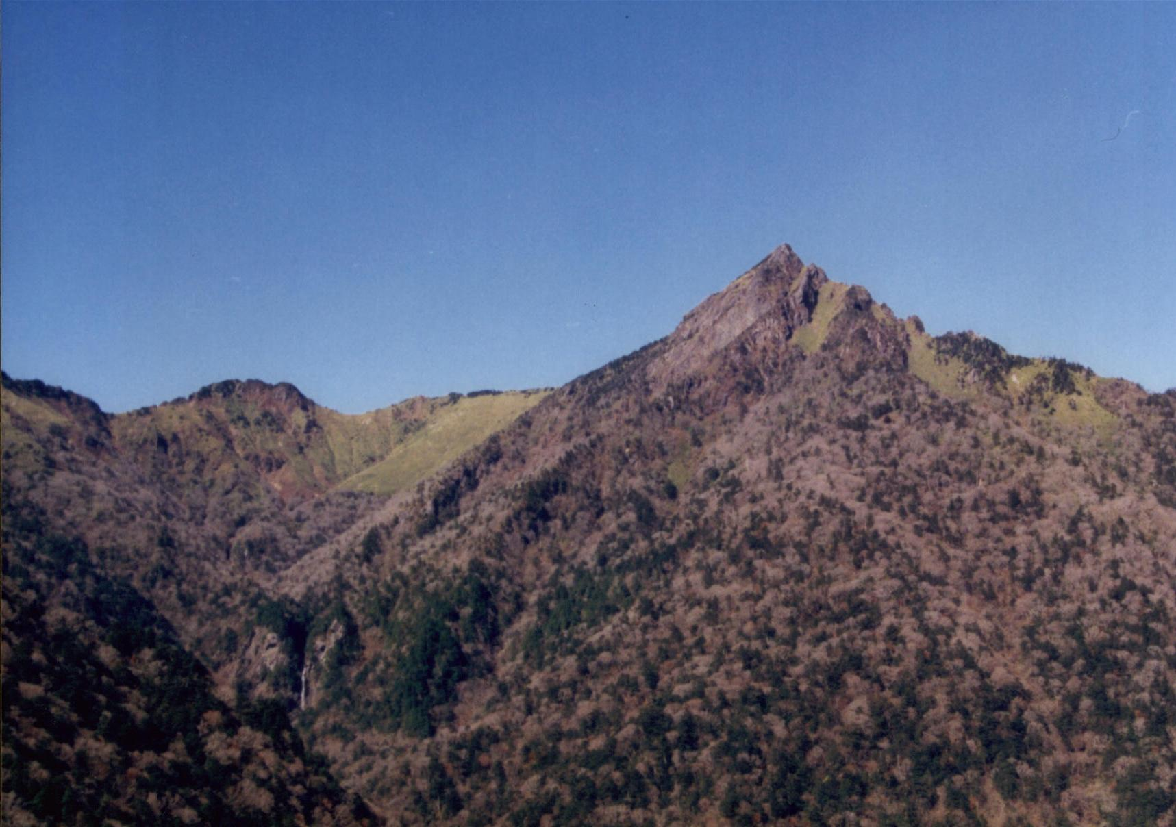 Mount Ishizuchi as seen from SSE.